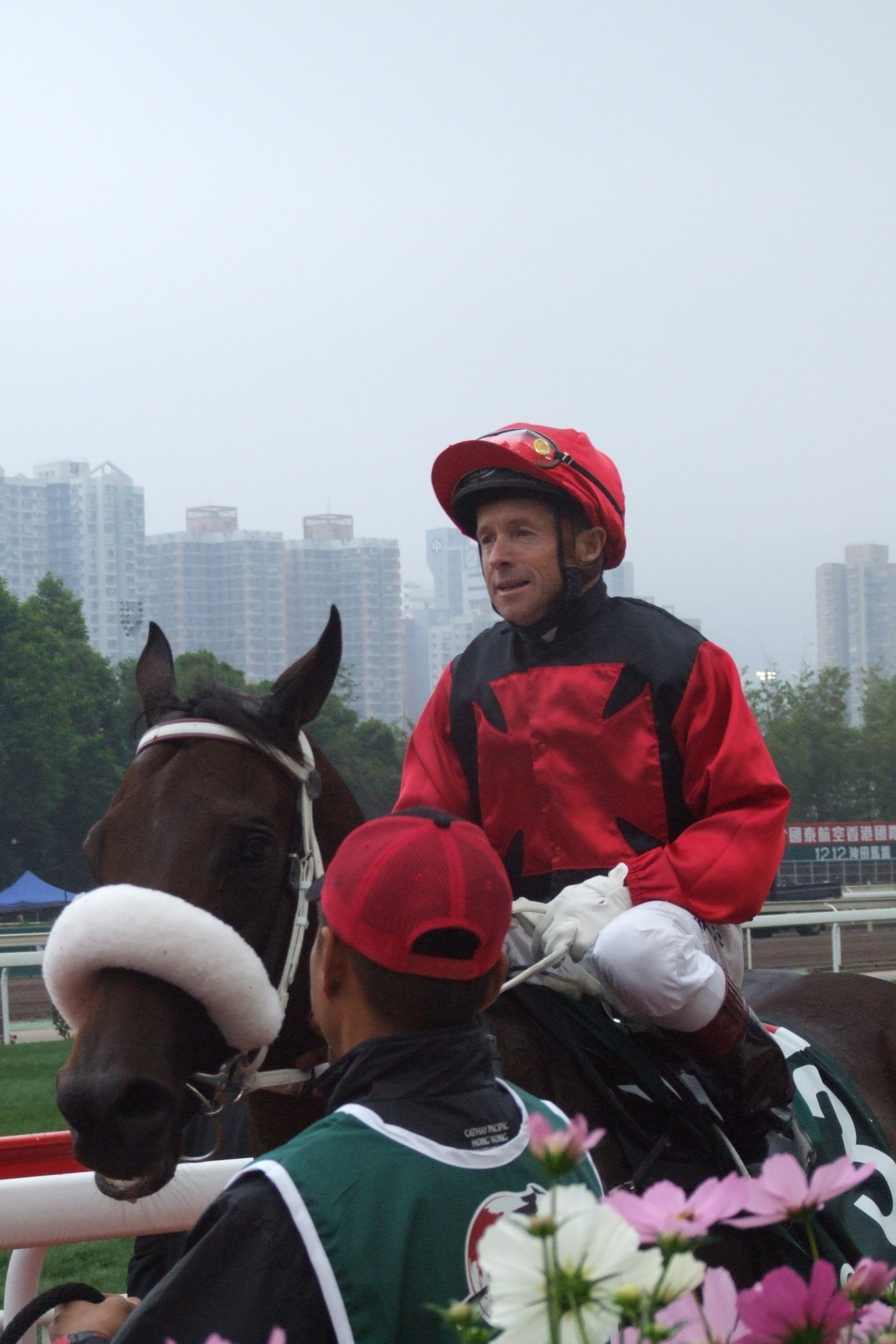 Felix Coetzee, South African jockey